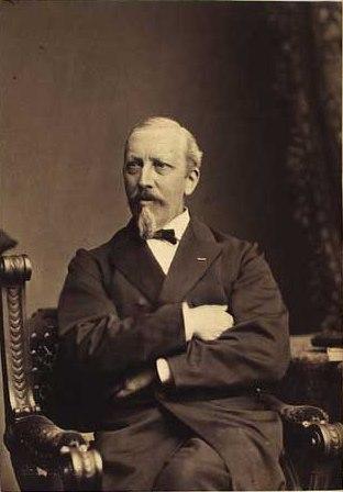 Svend Grundtvig (1824-1883), Danish folklorist